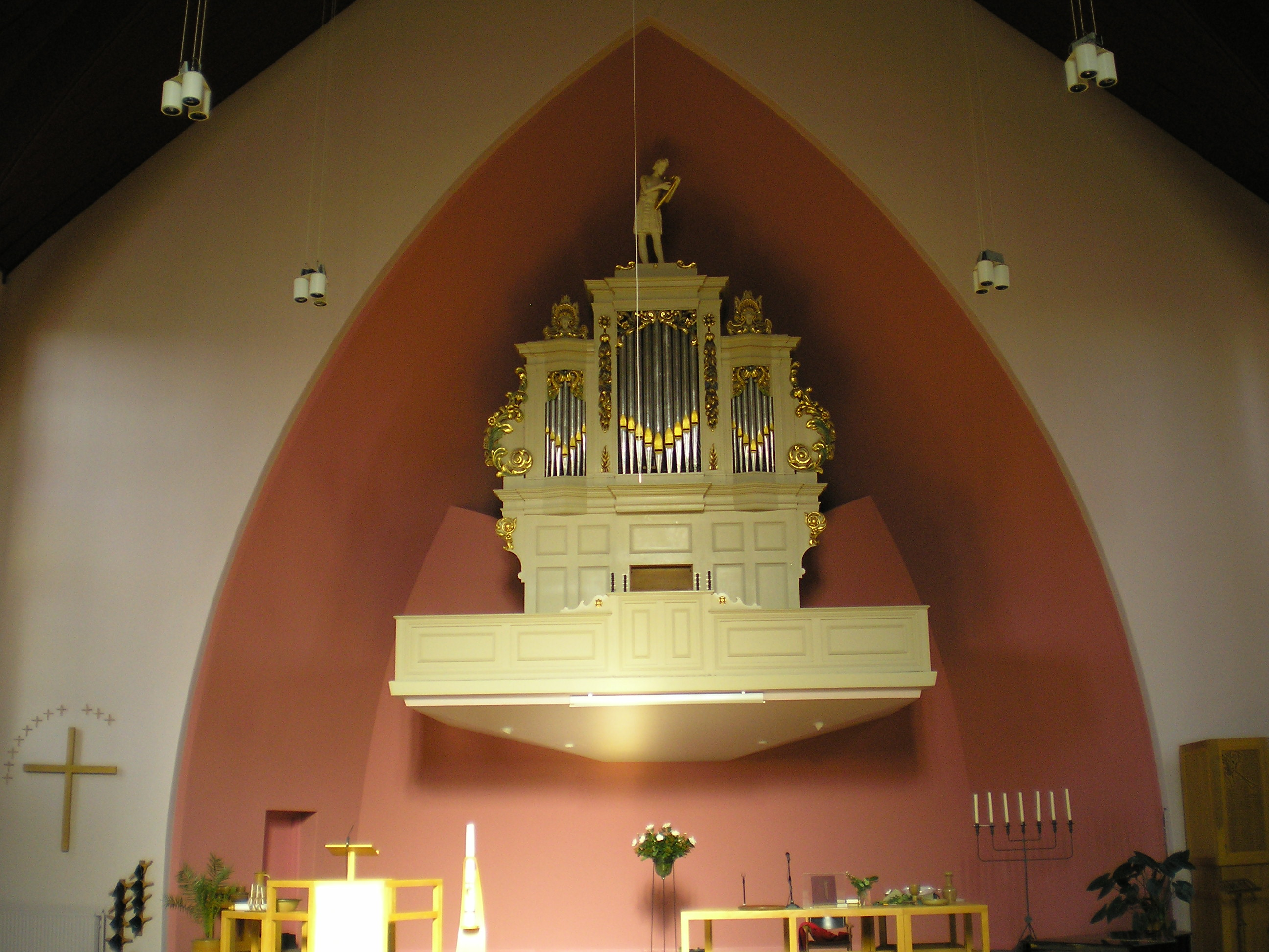 Ruprecht monumental organ in church Tuindorp Professor Suringarlaan 1 in Utrecht Netherlands